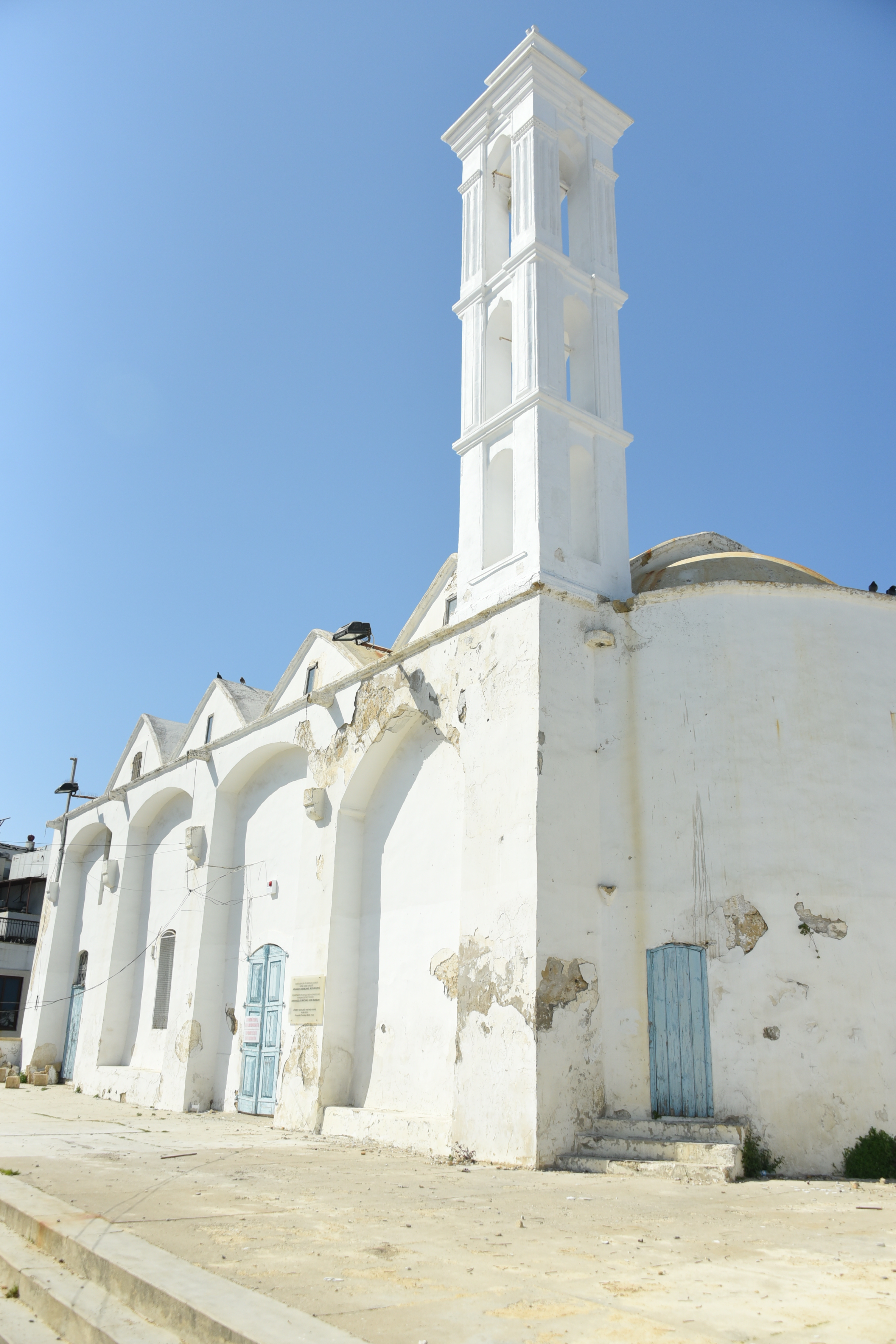 Vue de l'arrière de l'église de l'archange, qui abrite le Musée des icônes de Girne